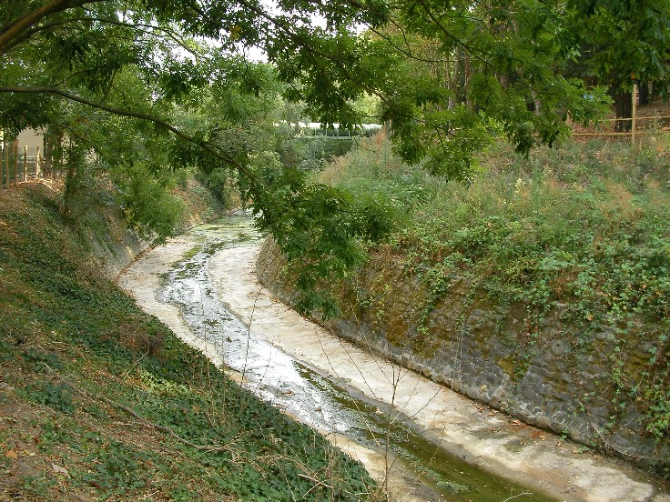 The Rio Salso